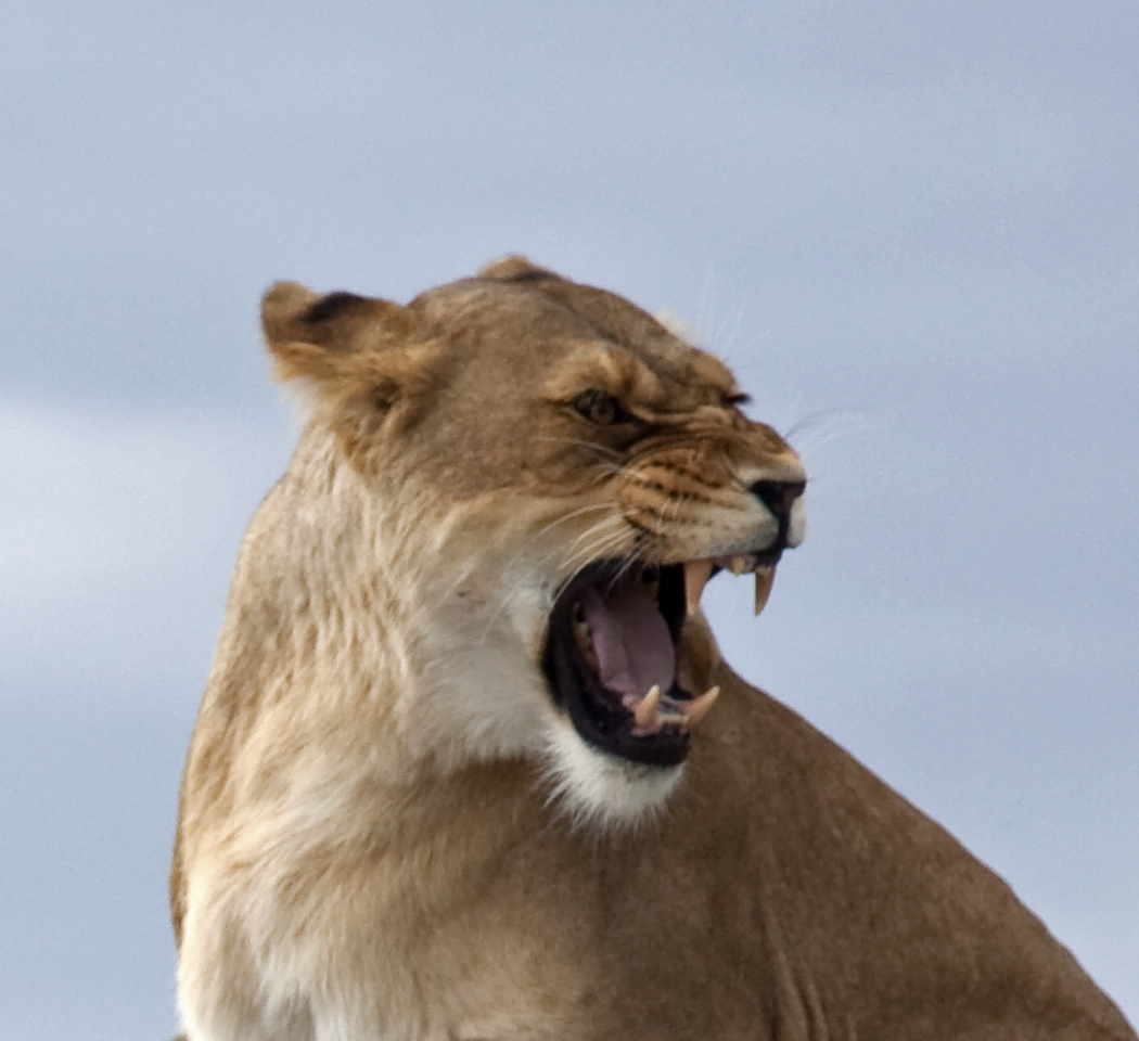 Annoyed Lioness